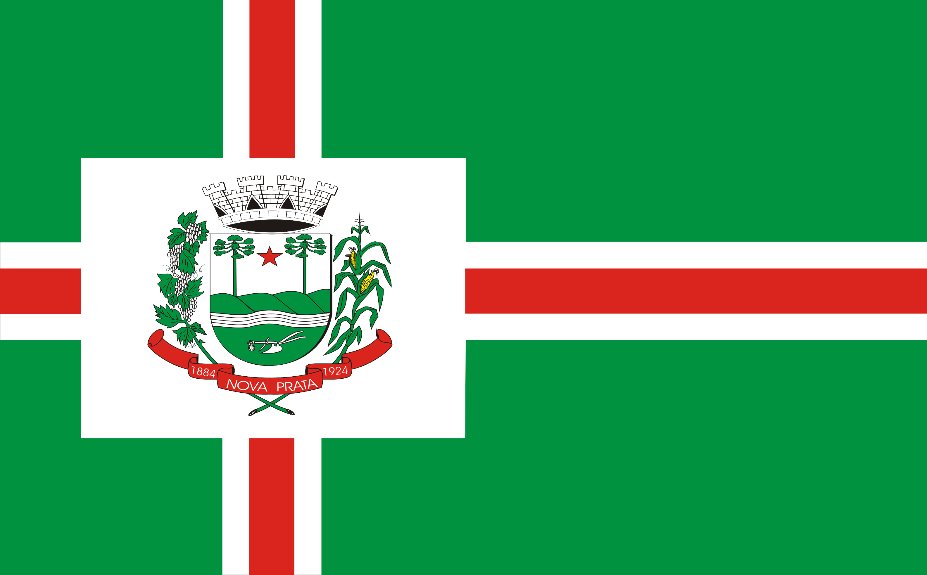 Flag of city of Nova Prata, Rio Grande do Sul, Brazil